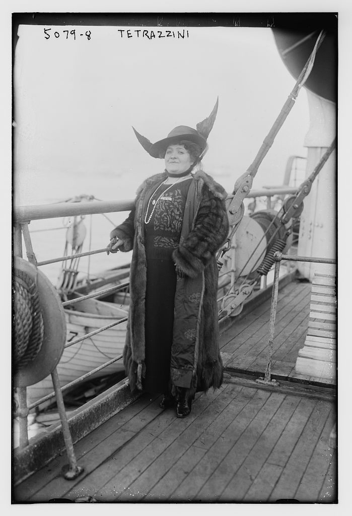 Luisa Tetrazzini in 1920